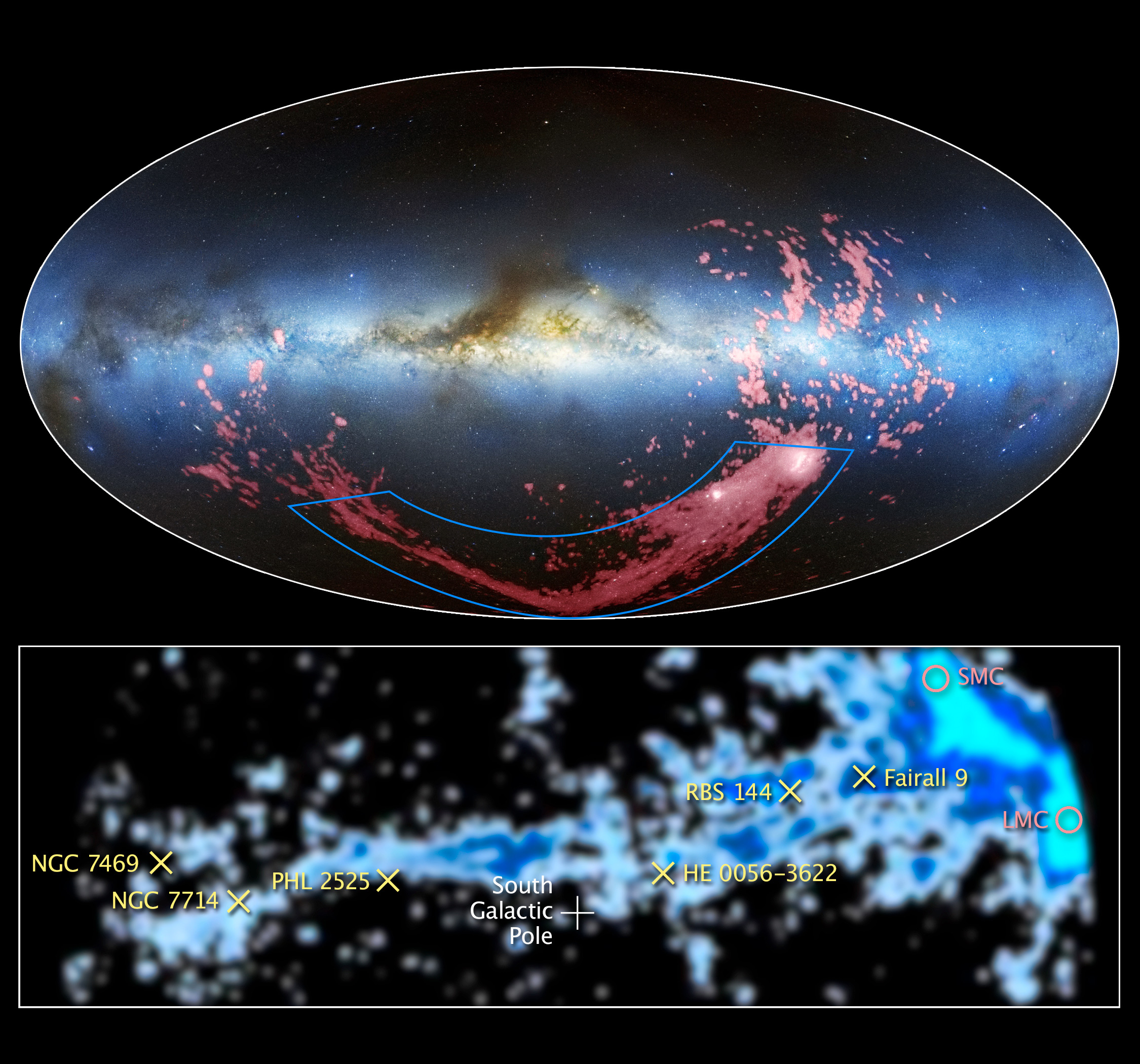 These images show wide and close-up views of a long ribbon of gas called the Magellanic Stream, which stretches nearly halfway around the Milky Way. In the combined radio and visible-light image at the top, the gaseous stream is shown in pink. The radio observations from the Leiden/Argentine/Bonn (LAB) Survey have been combined with the Mellinger All-Sky Panorama in visible light. The Milky Way is the light blue band in the centre of the image. The brown clumps are interstellar dust clouds in our galaxy. The Magellanic Clouds, satellite galaxies of the Milky Way, are the white regions at the bottom right. The image at the bottom, taken at radio wavelengths, is a close-up map of the Magellanic Stream that also was generated from the LAB Survey. Researchers determined the chemistry of the gas filament by using Hubble's Cosmic Origins Spectrograph (COS) to measure the amount of heavy elements, such as oxygen and sulphur, at six locations (marked with an "x") along the Magellanic Stream. COS observed light from faraway quasars that passed through the stream, and detected the spectral fingerprints of these elements from the way they absorb ultraviolet light. Quasars are the brilliant cores of active galaxies. These observations show that most of the gas was stripped from the Small Magellanic Cloud about two billion years ago — but surprisingly, a second region of the stream was formed more recently from the Large Magellanic Cloud. The pink circles to the right mark the location of the Small and Large Magellanic Clouds.